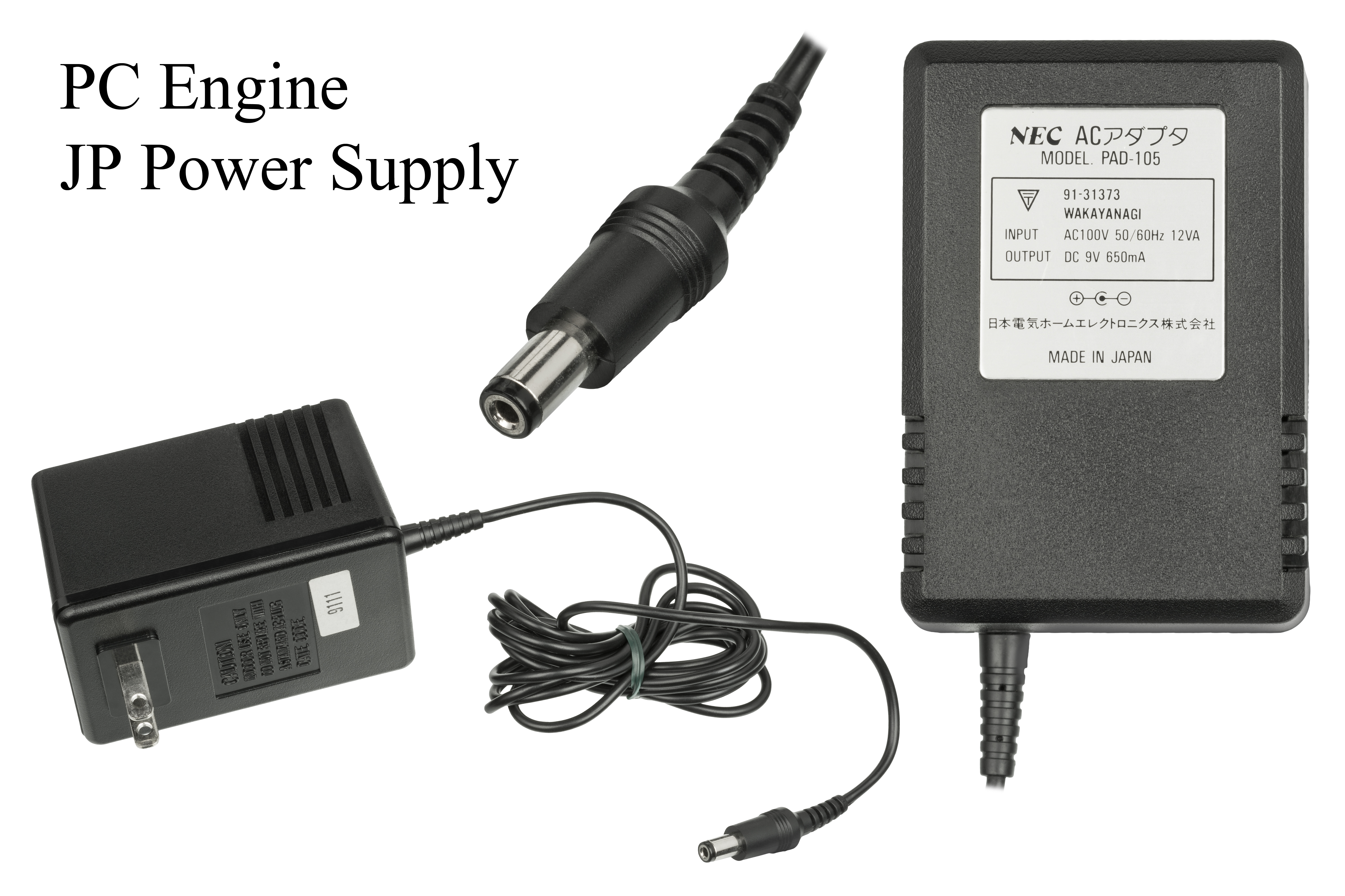 The power supply to an NEC PC Engine video game console, model PAD-105. Meant for Japanese voltage, this is a 100V input and it outputs at 9V at 650mA.